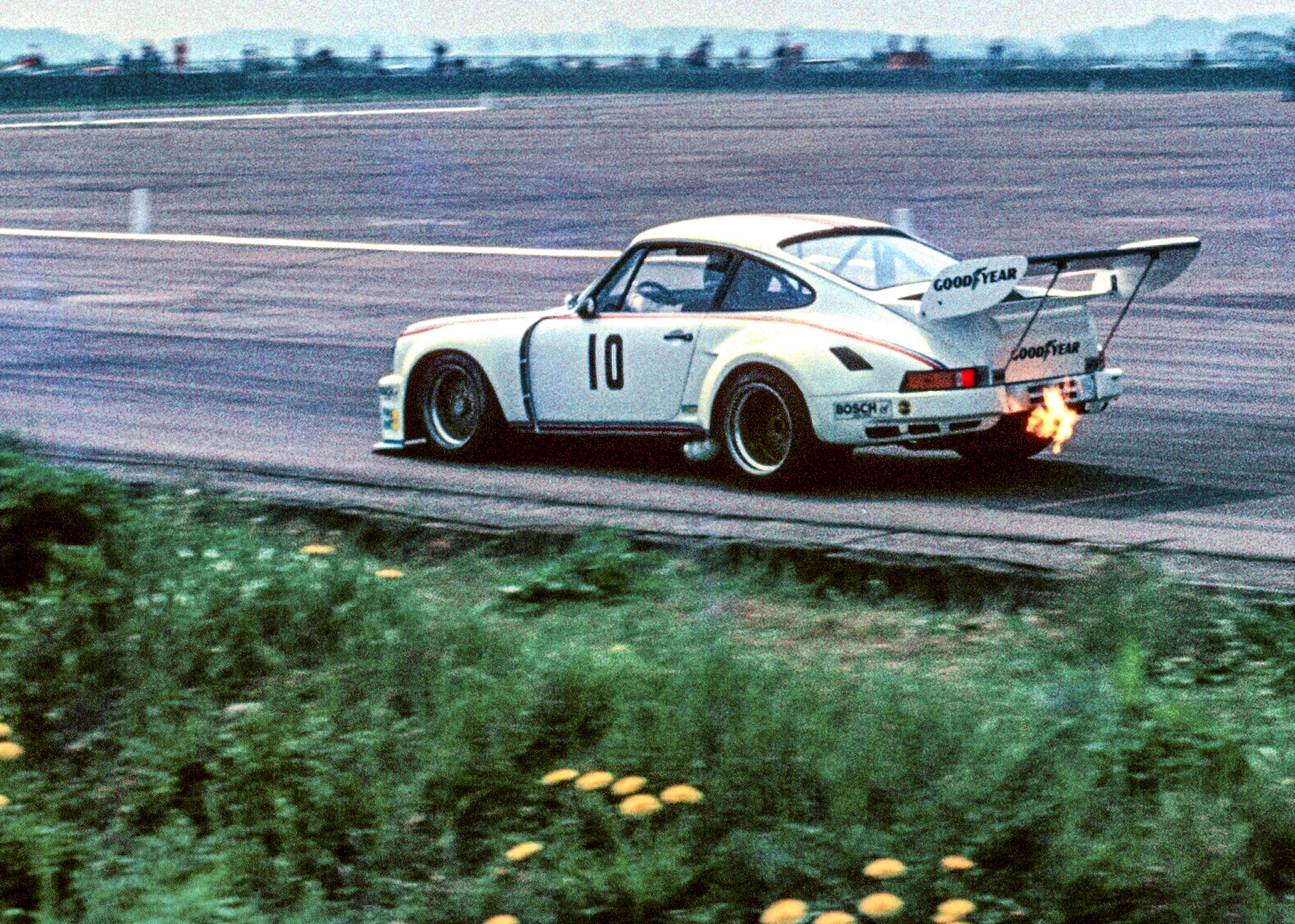 Porsche Kremer Racing, Porsche 935 Drivers: Bob Wollek / Hans Heyer, Finish Result: 2nd Place The World Championship For Manufacturers Silverstone 6 Hours, England, UK (1976).